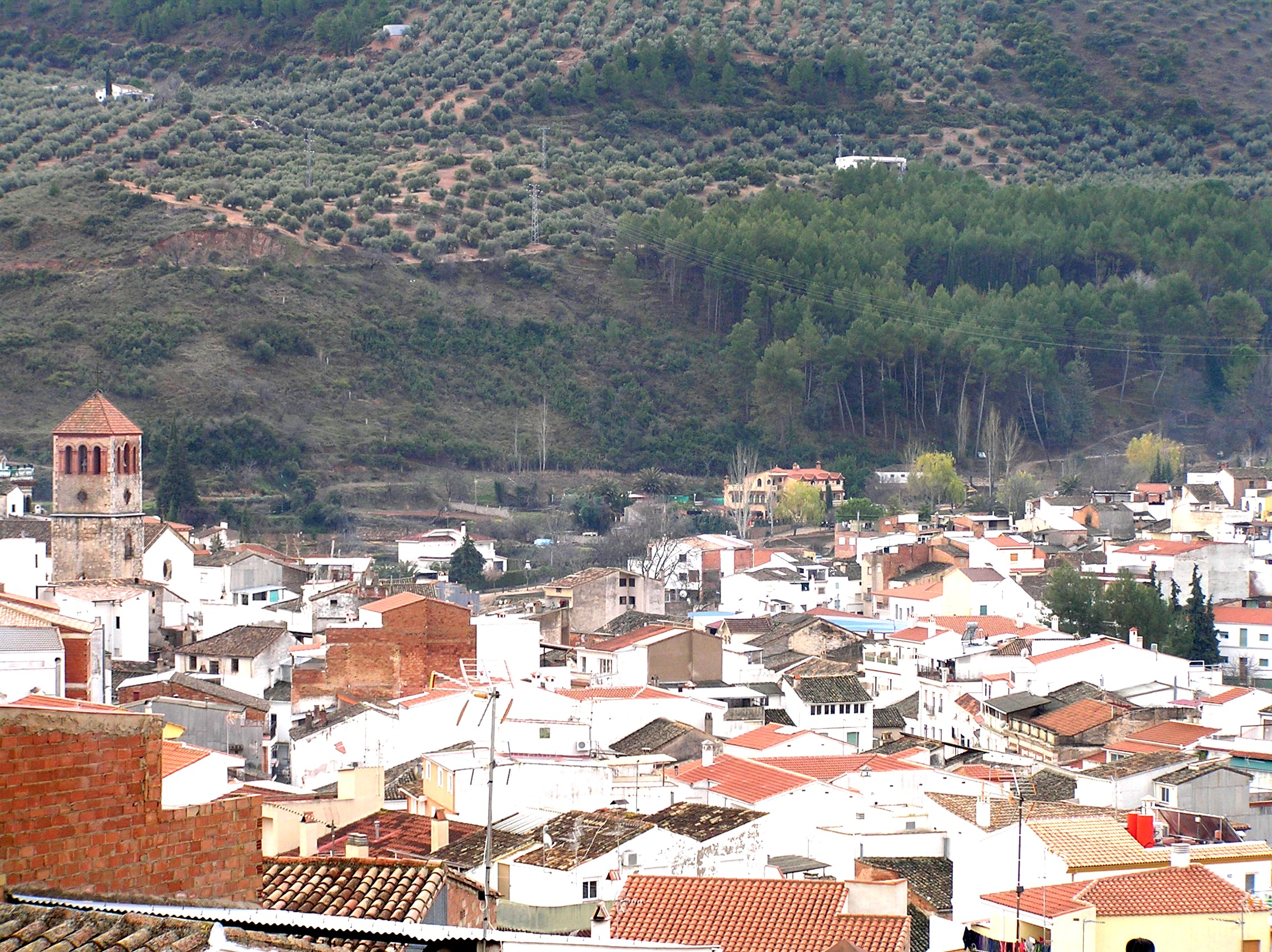 Beas uno